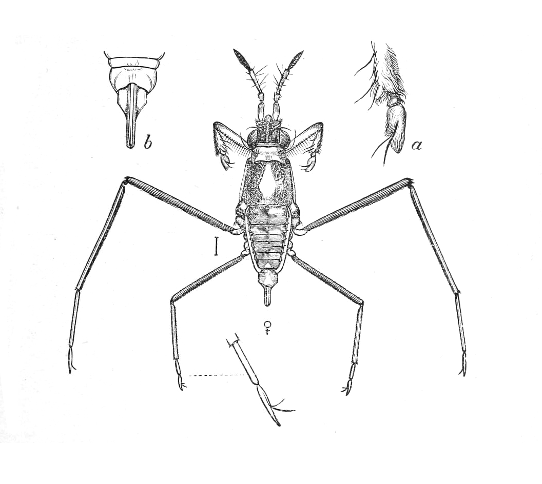 Rheumatobates rileyi female, hindleg enlarged - a) foretarsus b) anal segment from below